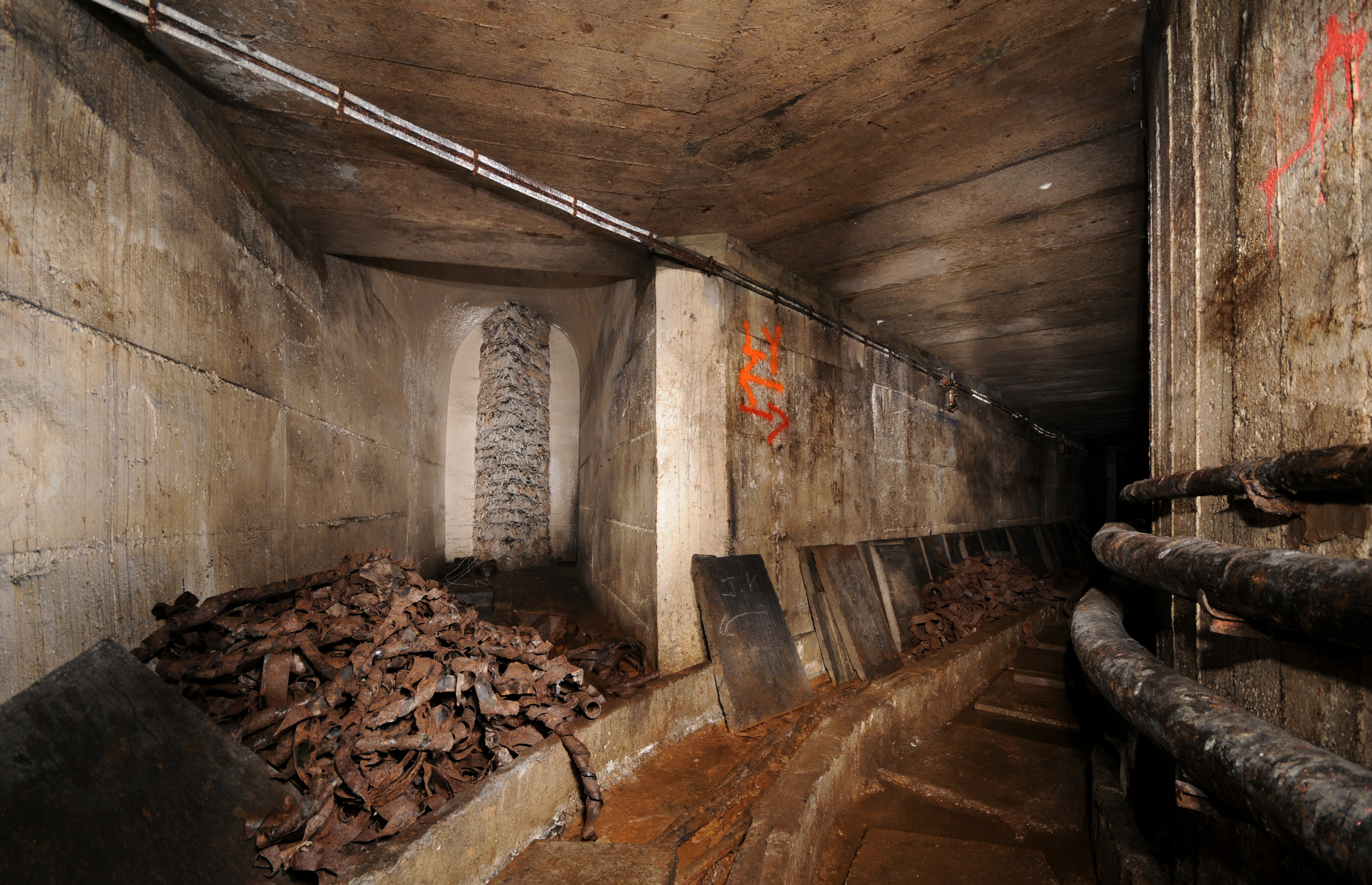 Salbert hill fortifications. Old NATO station (lightpainting).